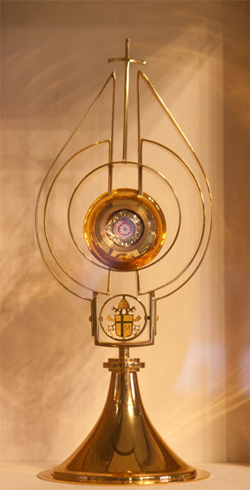 Blood Relic of Pope John Paul II - a gift for the 25th anniversary.